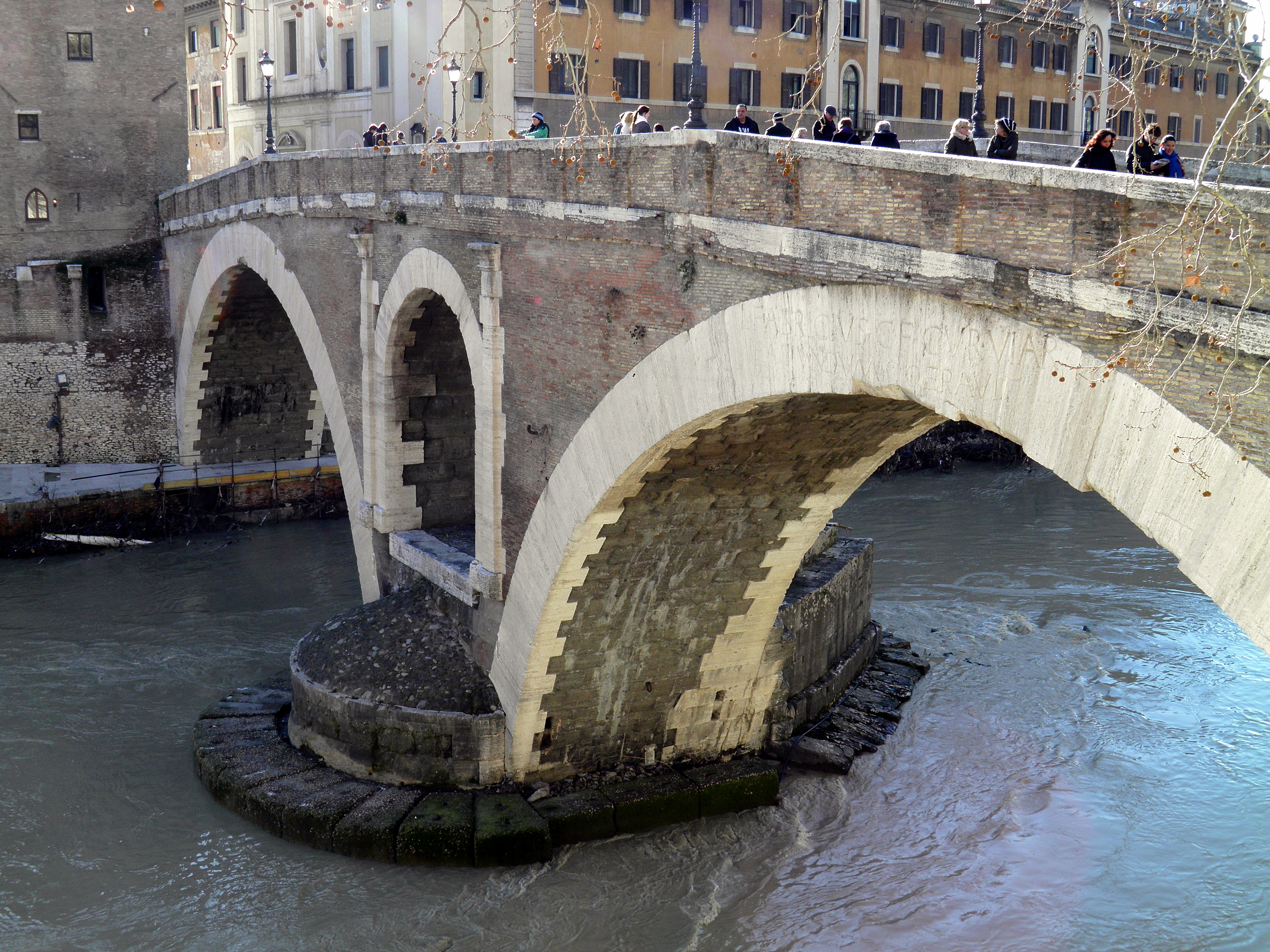 The Pons Fabricius (Italian: Ponte Fabricio, meaning "Fabricius' Bridge") or Ponte dei Quattro Capi, is the oldest Roman bridge in Rome, Italy, still existing in its original state. Built in 62 BC, it spans half of the Tiber River, from the Campus Martius on the east side to Tiber Island in the middle (the Pons Cestius is west of the island). Quattro Capi ("four heads") refers to the two marble pillars of the two-faced Janus herms on the parapet, which were moved here from the nearby Church of St. Gregory (Monte Savello) in the 14th century. According to Dio Cassius, the bridge was built in 62 BC, the year after Cicero was consul, to replace an earlier wooden bridge destroyed by fire. It was commissioned by Lucius Fabricius, the curator of the roads and a member of the gens Fabricia of Rome. Completely intact from Roman antiquity, it has been in continuous use ever since. The Pons Fabricius has a length of 62 m, and is 5.5 m wide. It is constructed from two wide arches, supported by a central pillar in the middle of the stream. Its core is constructed of tuff. Its outer facing today is made of bricks and travertine.